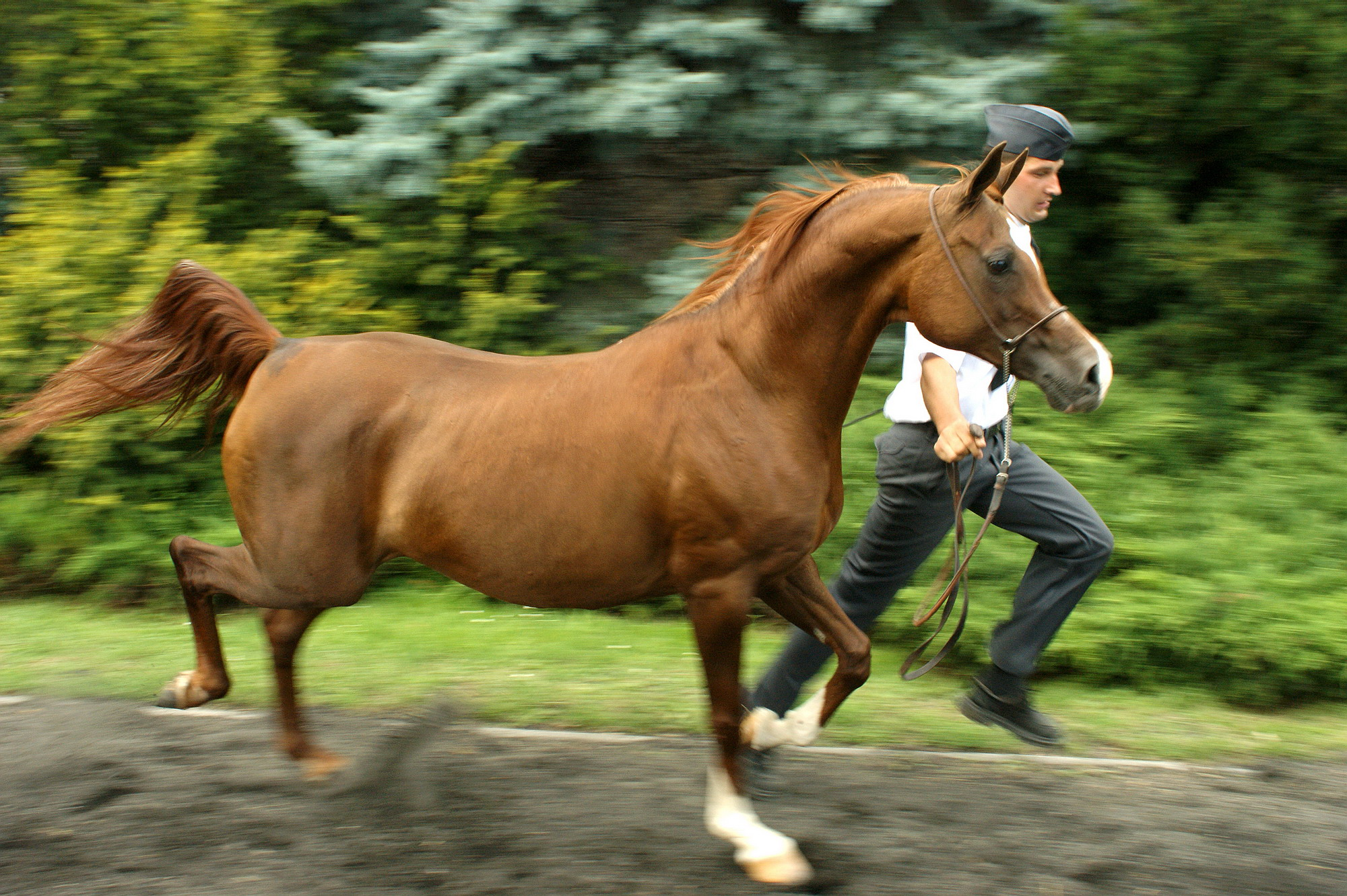 Kwestura - a mare of Arabian horse polish breeding, SK Michalow.